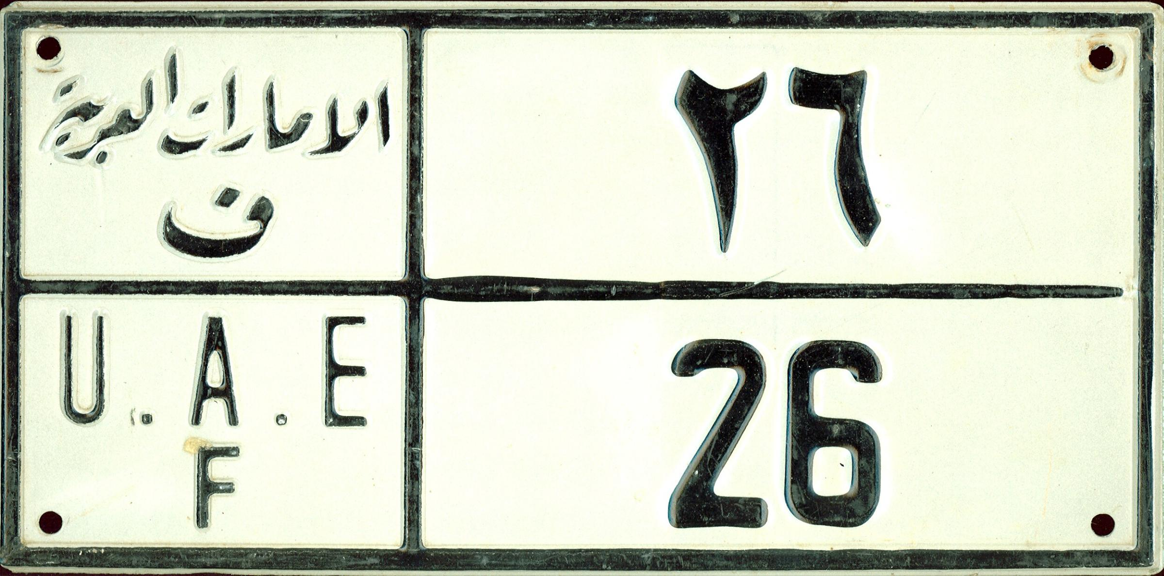 Fujairah passenger plate, United Arab Emirates.